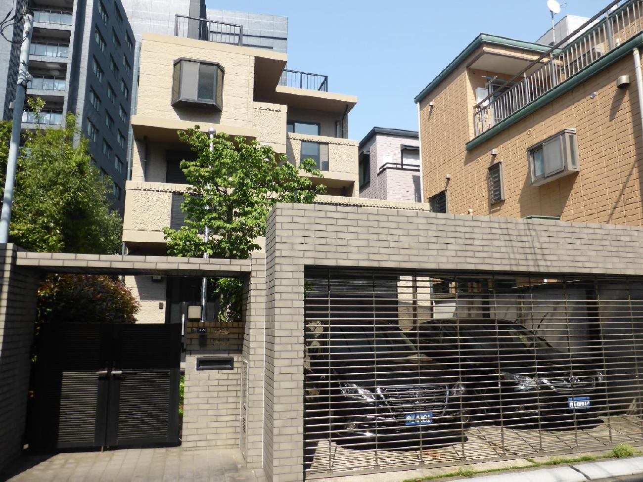 Embassy of East Timor in Tokyo, Japan